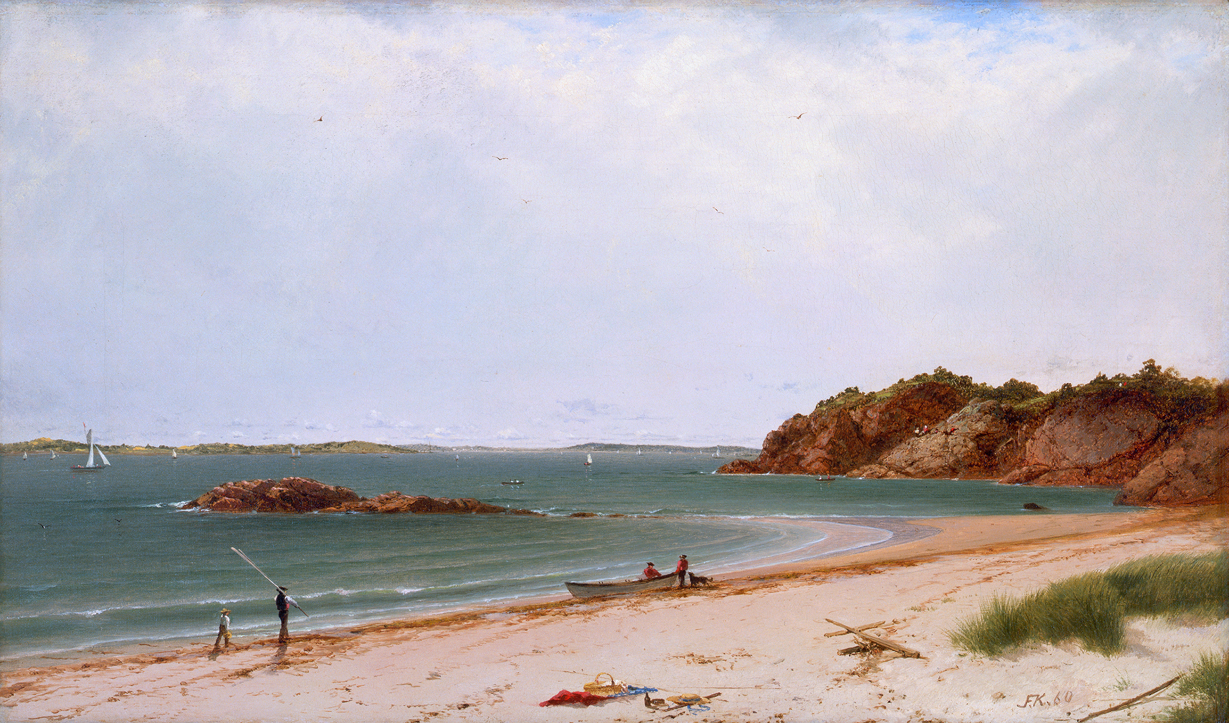 View of the Beach at Beverly, Massachusetts